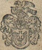 Jastrzębiec сoat of arms from Kronika polska